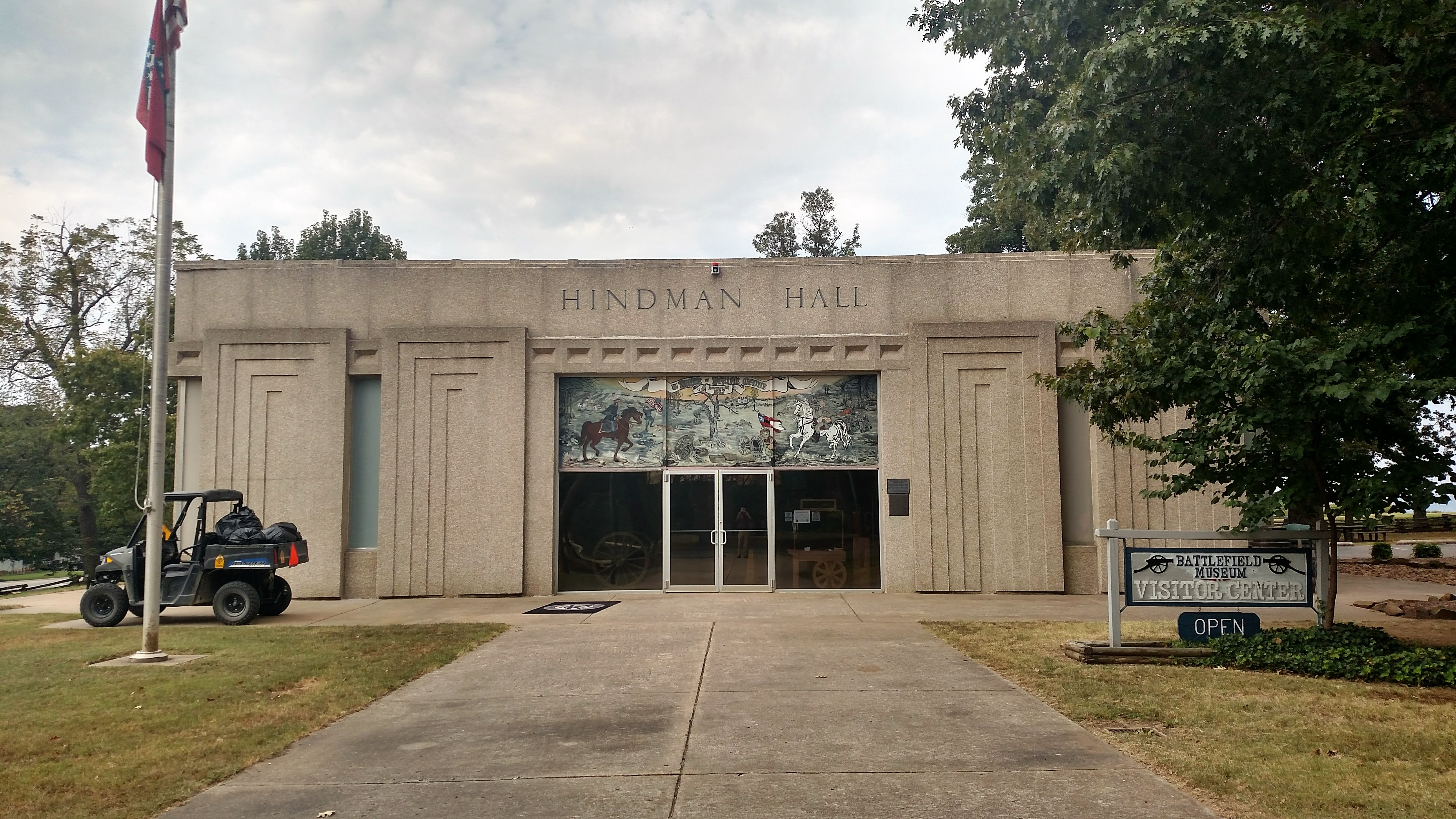 Hindman Hall museum and gift shop at Prairie Grove Battlefield State Park